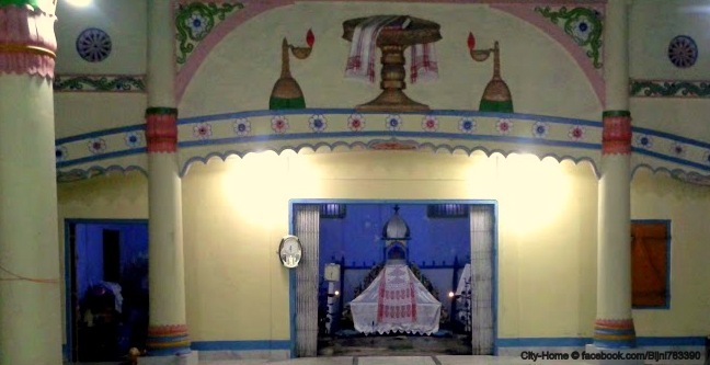 View inside Bijni Namghar